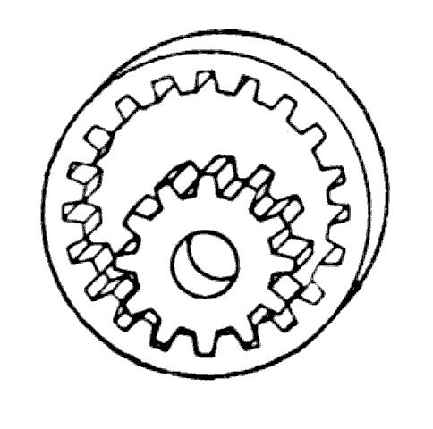 Sprocket Wheel